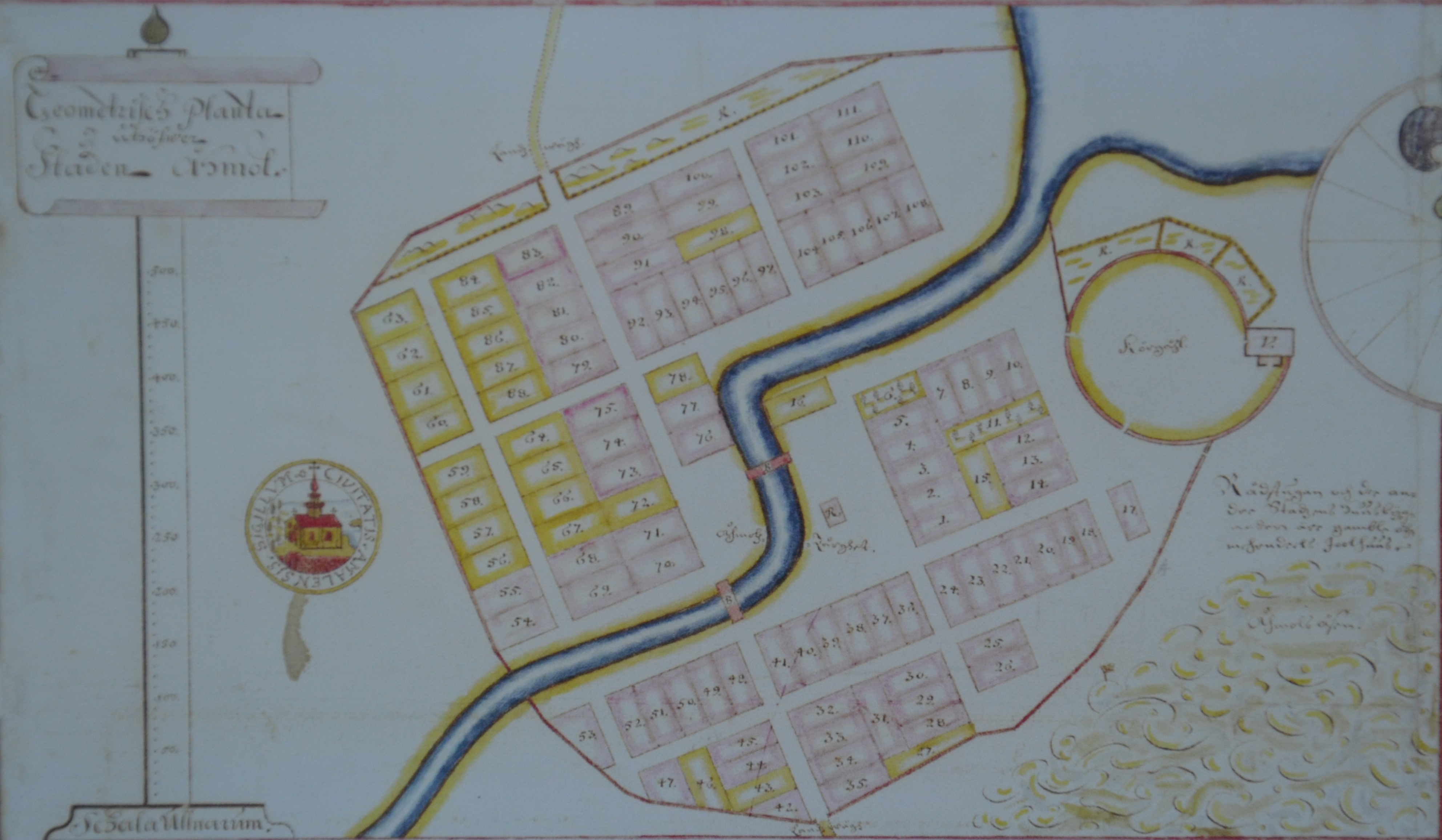 Lantmätare Magnus Beckmans karta över Åmål 1750